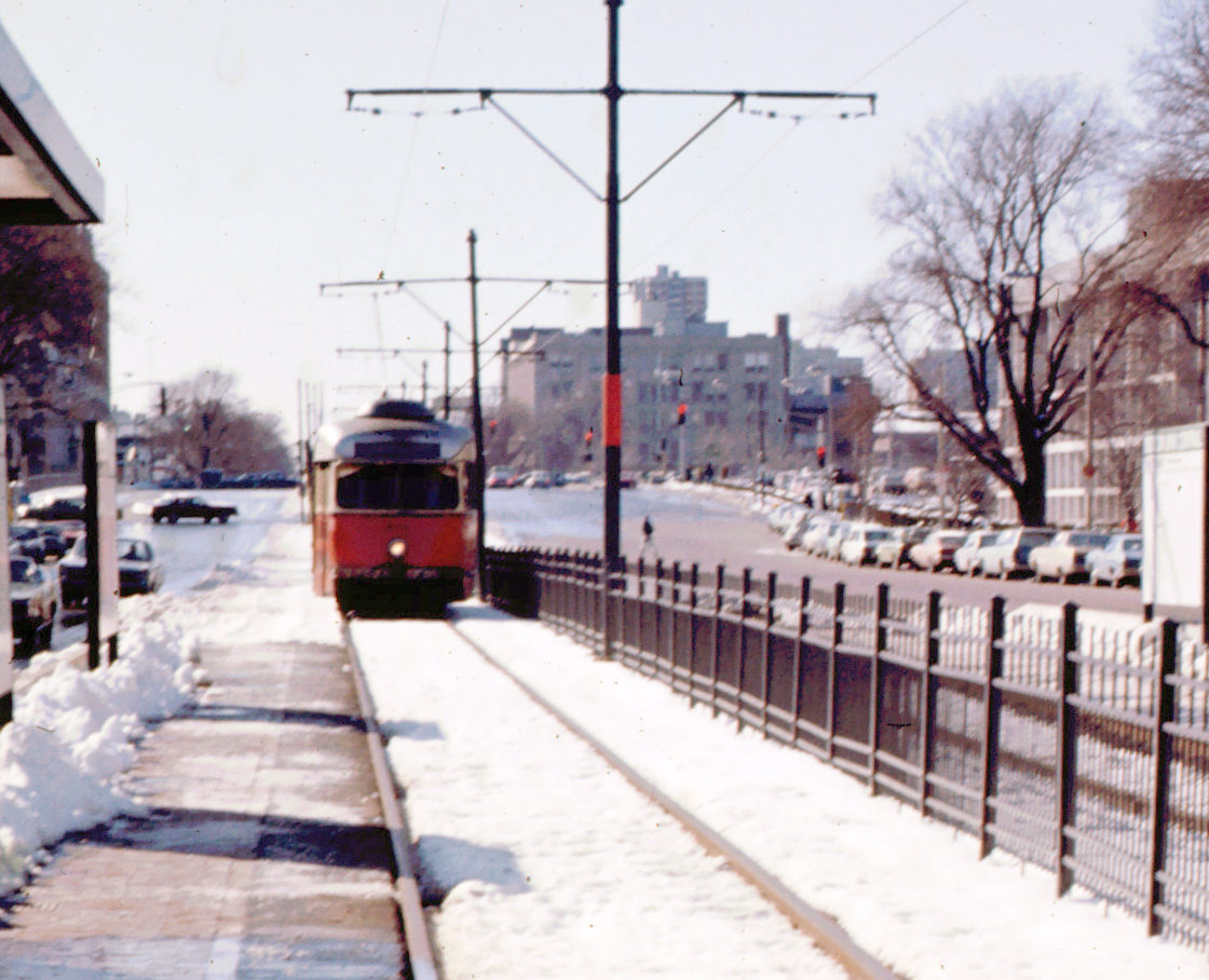 An inbound PCC streetcar approaches Boston University Central station in 1977